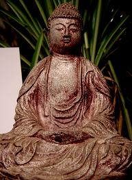 Meditating Buddha